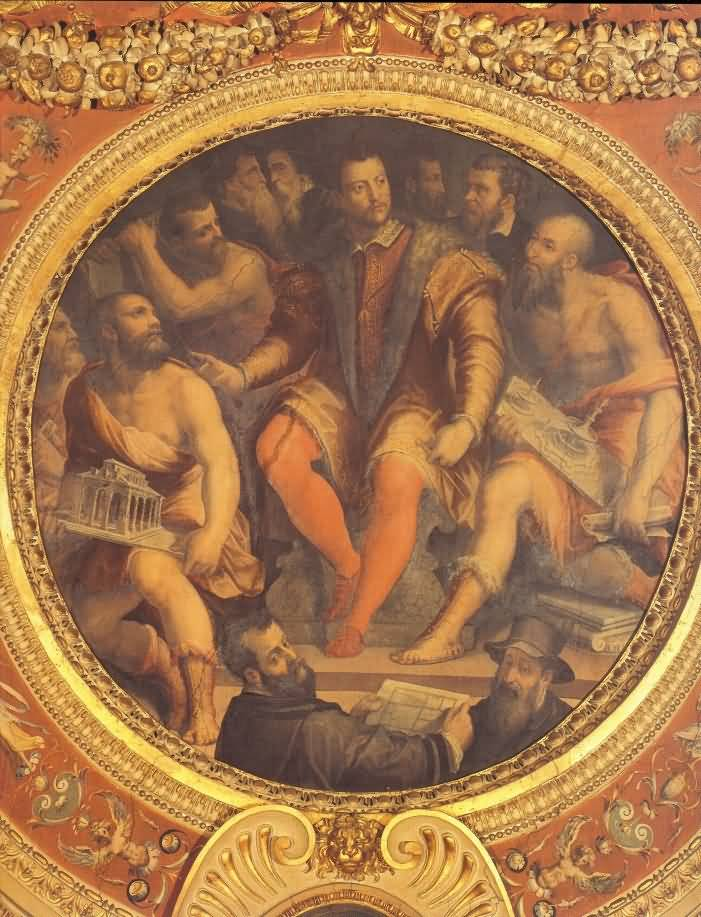 Vasari, Giorgio 1511 - 1574 Cosimo I de' Medici surrounded by his Architects, Engineers and Sculptors 1555-8 fresco Palazzo Vecchio, Florence